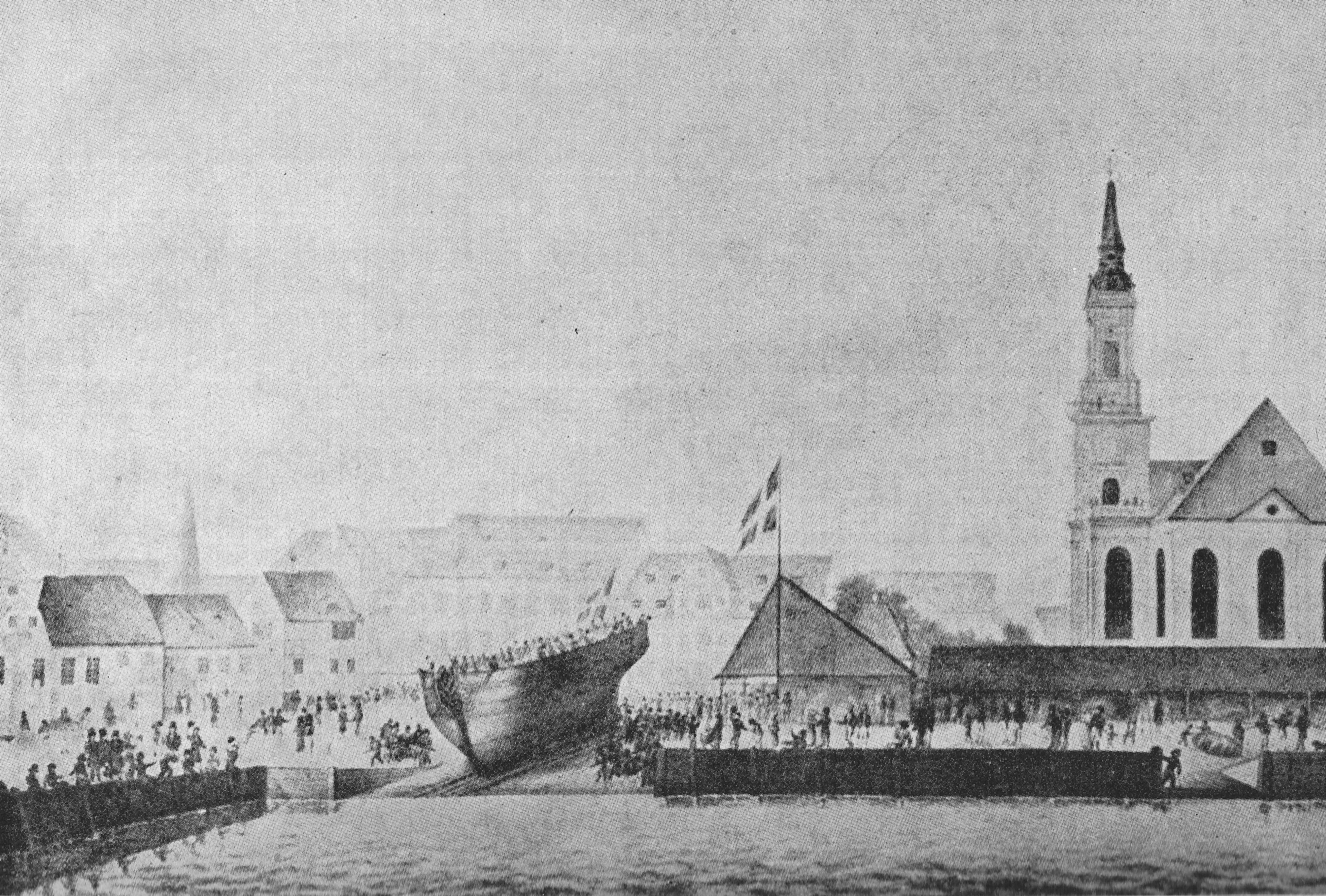 Painting, Shipyard, Copenhagen, Christianshavn, Jacob Holms Shipyard